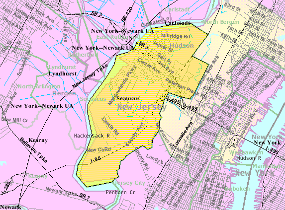 Census Bureau map of Secaucus